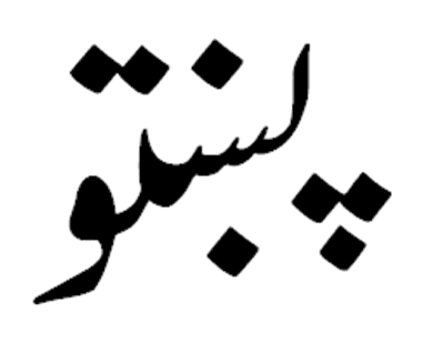 The word 'Pashto' in Pashto (Nastaliq style) پښتو: د پب۬تو نوم پہ نستعلیق انداز کب۬ی۔